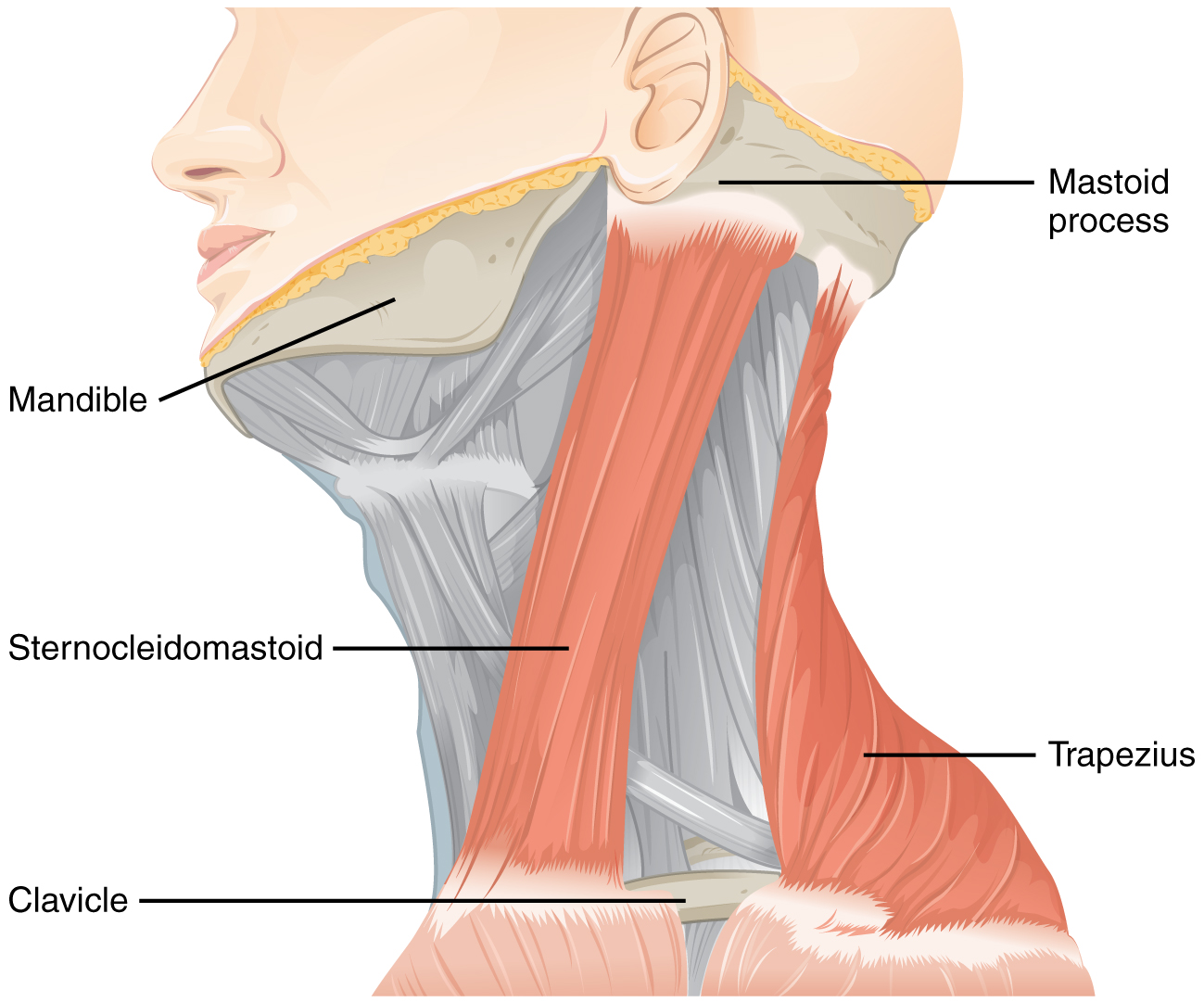 Illustration from Anatomy & Physiology, Connexions Web site. Jun 19, 2013.